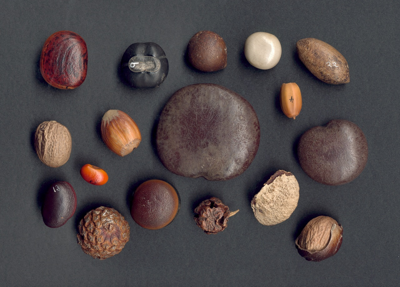 Western Isles; drift seeds In the Department of Natural History in the University of Aberdeen there is a cabinet containing a remarkable collection of South American and West Indian seeds picked up on the shores of the Outer Hebrides. The seeds were gathered between 1908 and 1919 by William L. Macgillivray, the nephew of William MacGillivray the renowned zoologist and artist and formerly Regius Professor of Natural History at Aberdeen. Most were collected on West Sand at Eoligarry NF6907, near to where he lived, but some are from Lewis and some from the island of Fudag. The seeds had been transported across the Atlantic by the Gulf Stream, a warm surface ocean current which originates in the Gulf of Mexico and flows northeast across the Atlantic, driven by the prevailing southwest winds. The voyage of the seeds would have taken around 15 months.